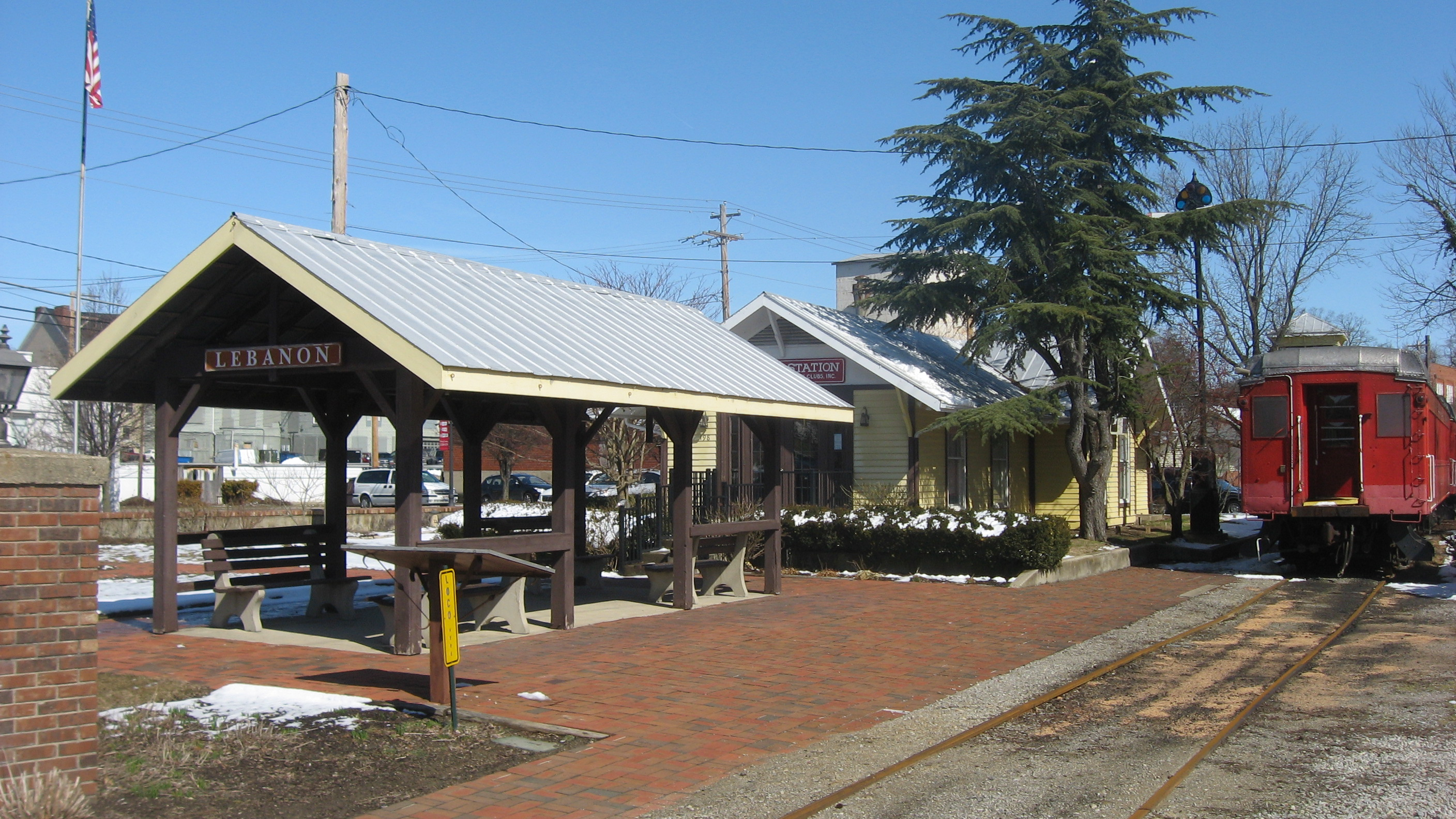 Overview from the west of the reproduction railroad station in Lebanon, Ohio, United States. Located east of the junction of Broadway and Cincinnati Avenue (U.S. Route 42 with South Street, it was built in 1974.